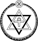 Seal of the Theosophical Society